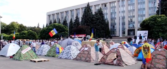 September 11, 2015 protests in Moldova